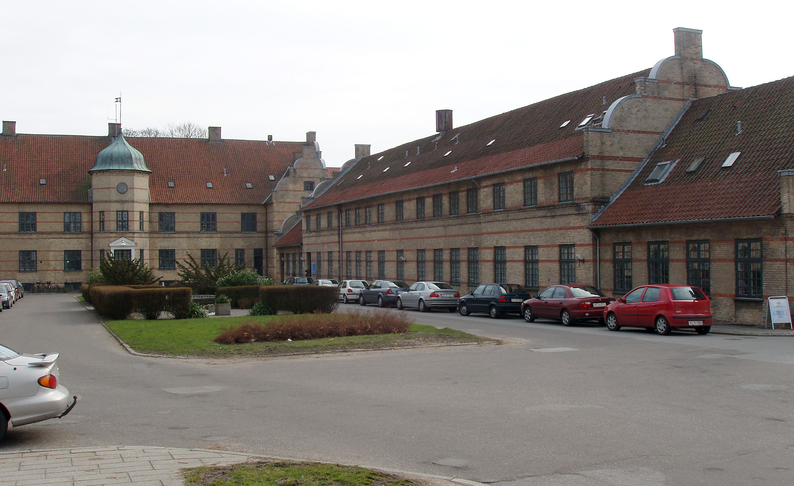 The Psychiatric Hospital in Risskov. The oldest buildings dates to 1852